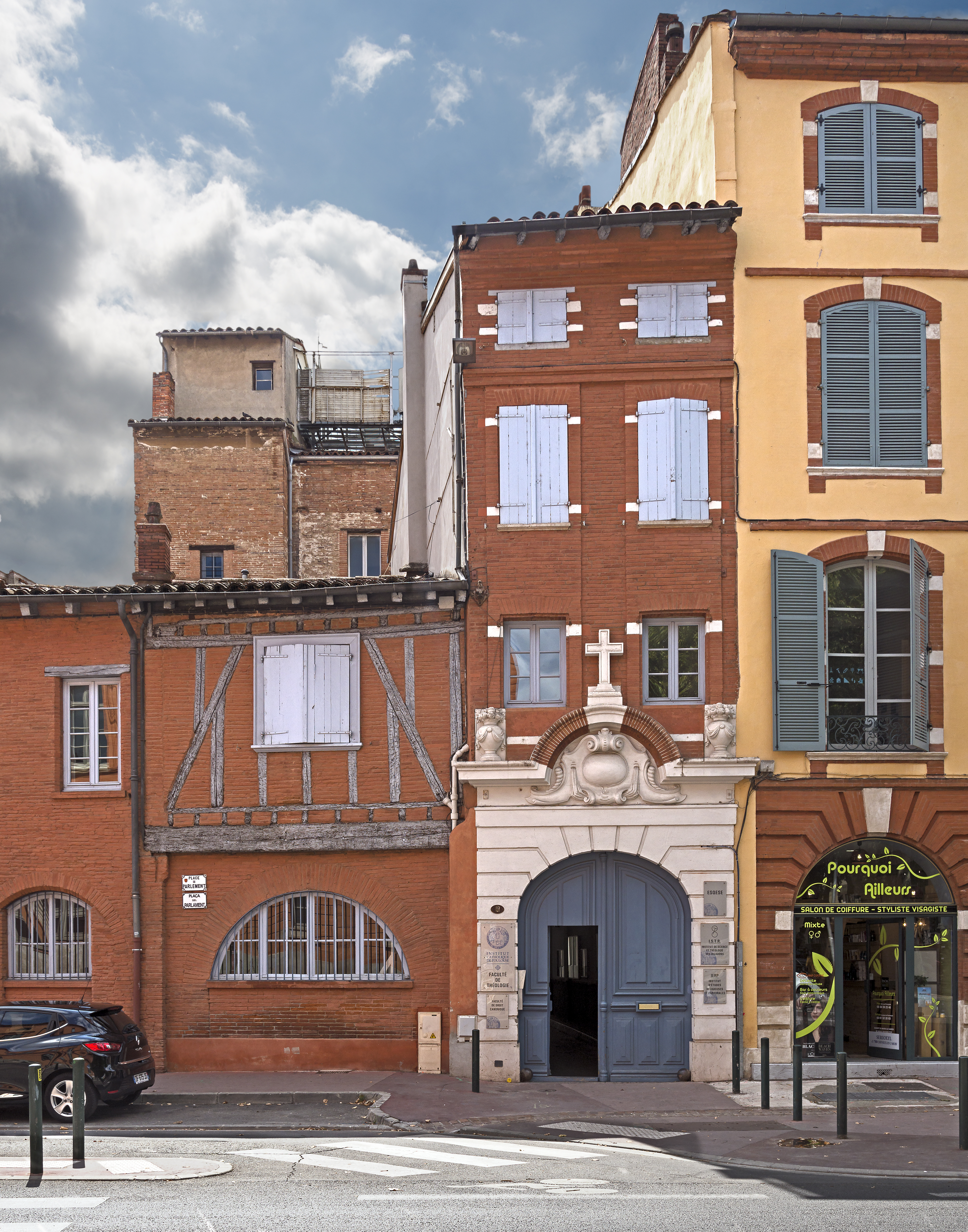 No. 7 & 8 Parliament Square, Toulouse: the Seilhan House was home to Saint Dominic in 1214. It was used during the Inquisition until 1589; converted into a chapel.